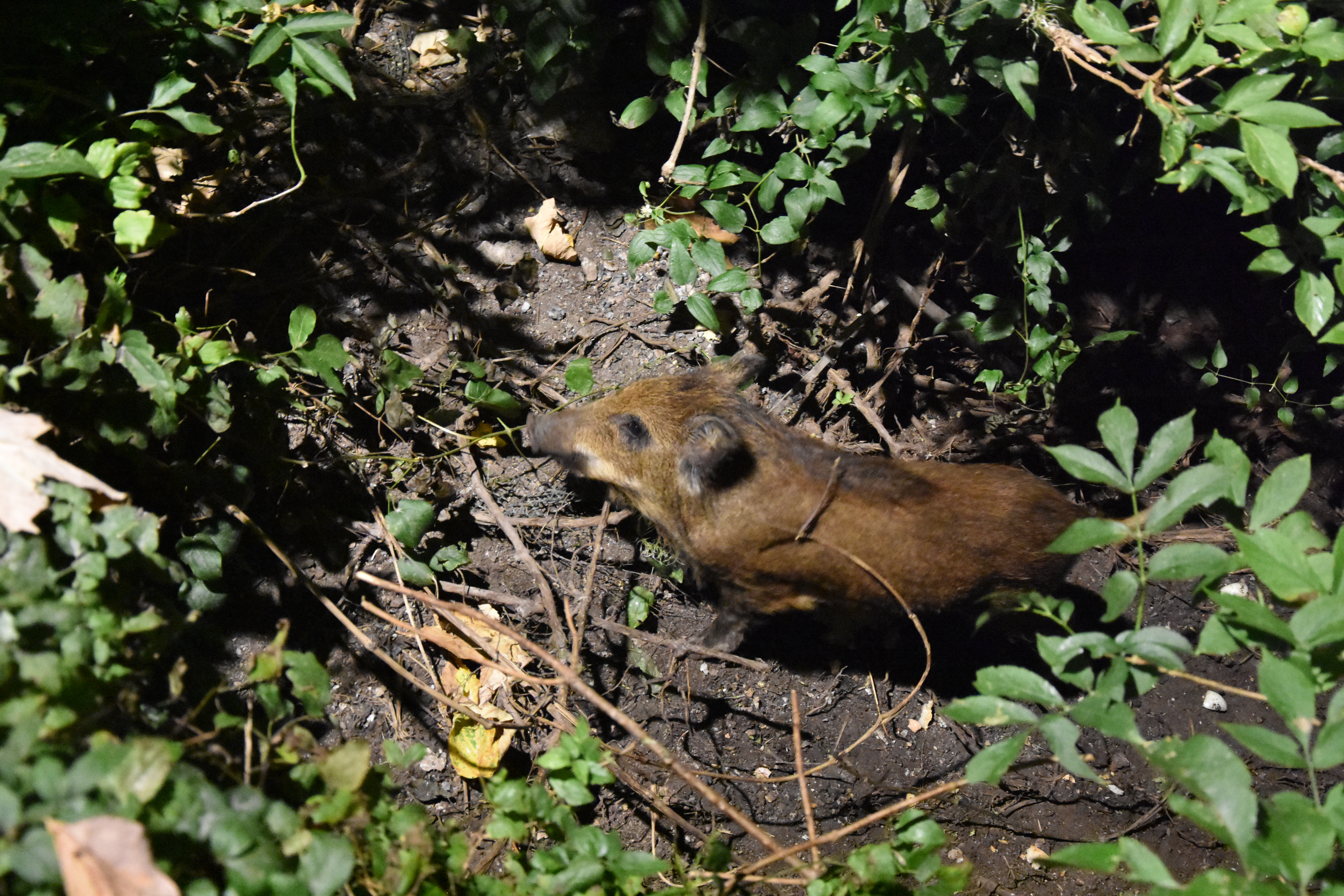 Young wild boars in the wood near Piazzale del Mosè, in Santa Maria del Monte, Varese.